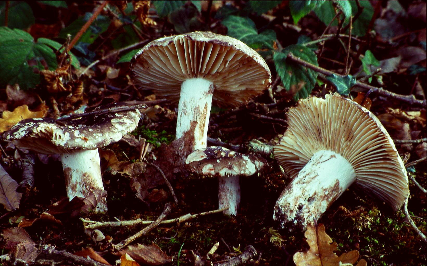 Russula nigricans